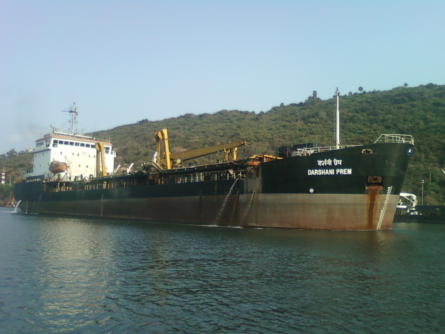 An Indian Ship Darshini Prem enters into Visakhapatnam (Vizag) port in Andhra Pradesh